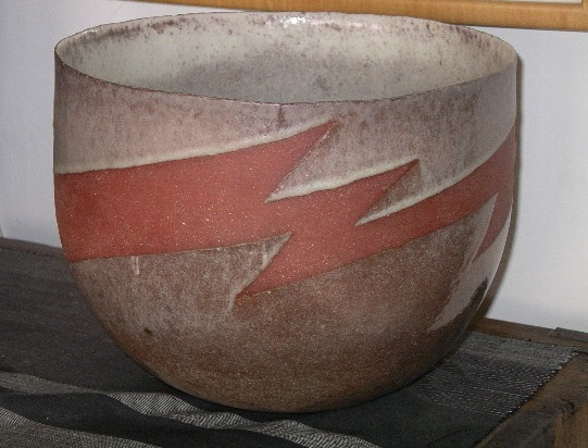 Ceramic object by the artist Maria Baumgartner, h = 24 cm